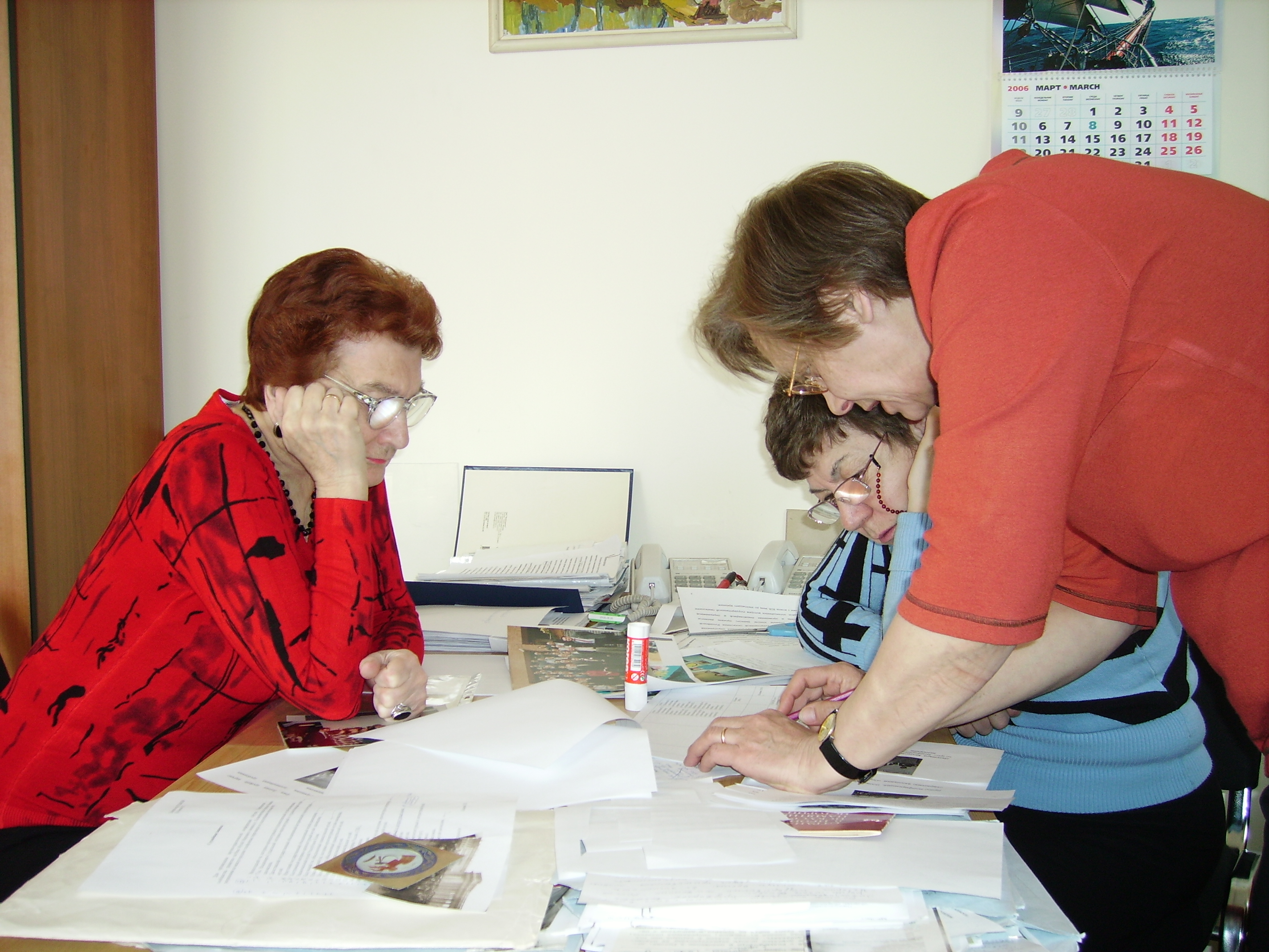 Museology laboratory staff, State Central Museum of Contemporary History of Russia